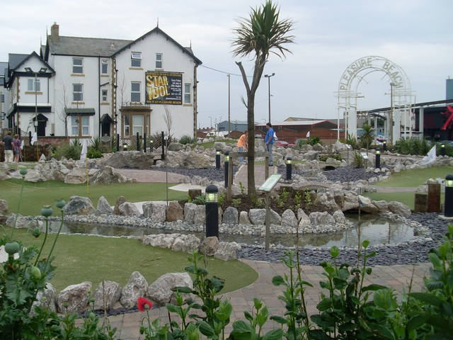 Adventure golf by Blackpool Pleasure Beach Just to the north of the theme park.